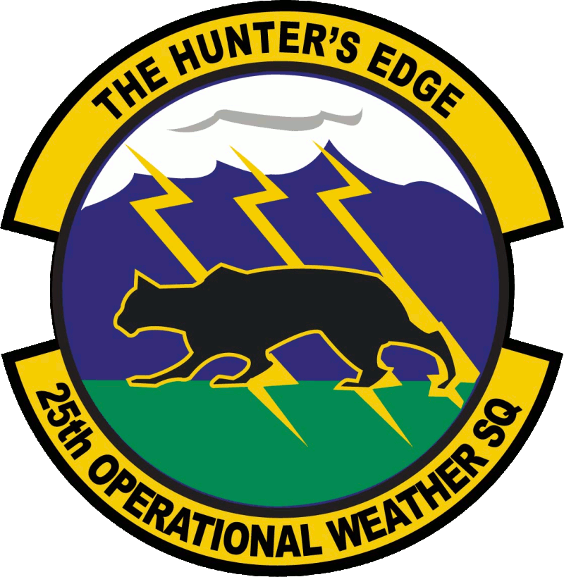 Emblem of the 25th Operational Weather Squadron, a squadron of the United States Air Force